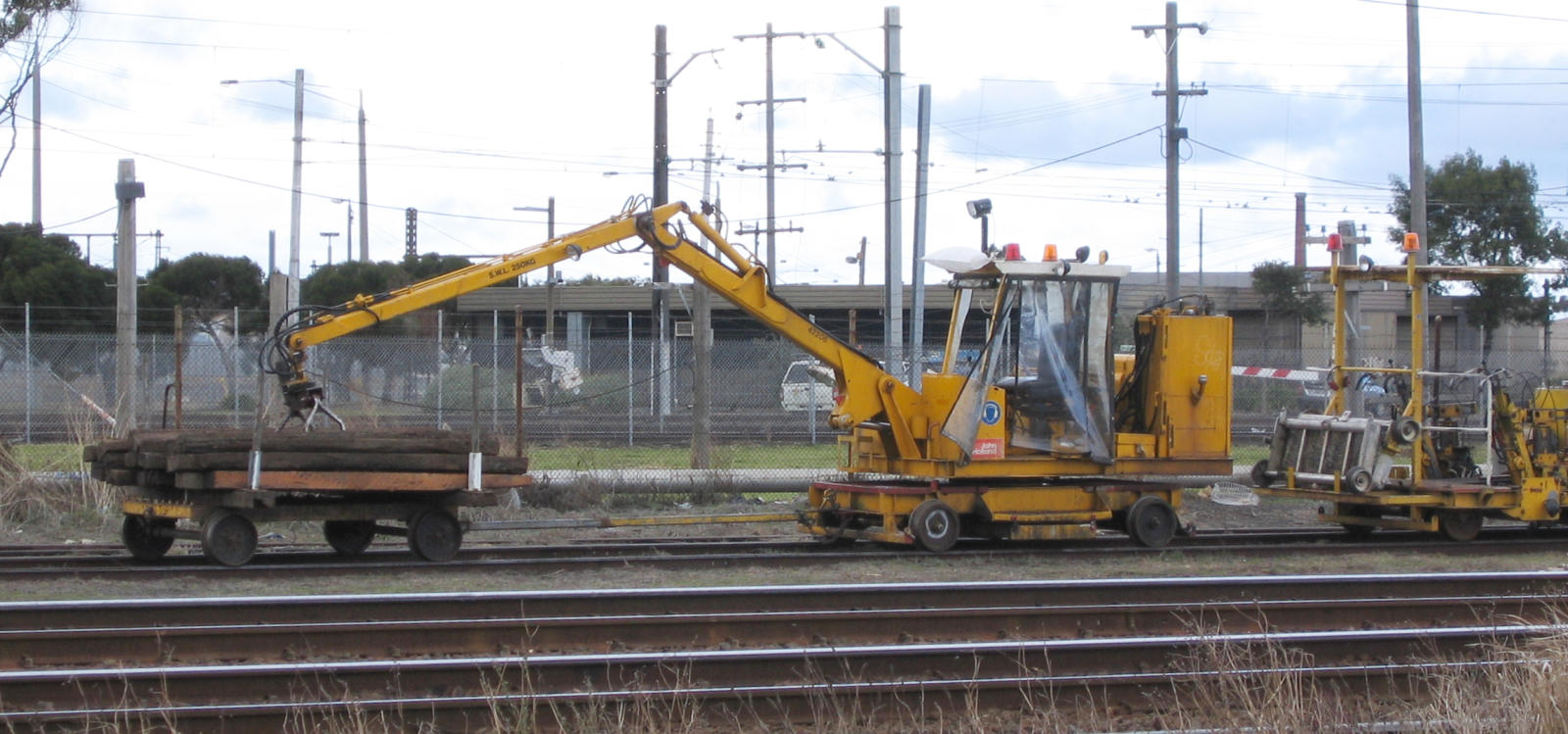 A tie crane in Victoria, Australia with wooden sleepers on the trolley